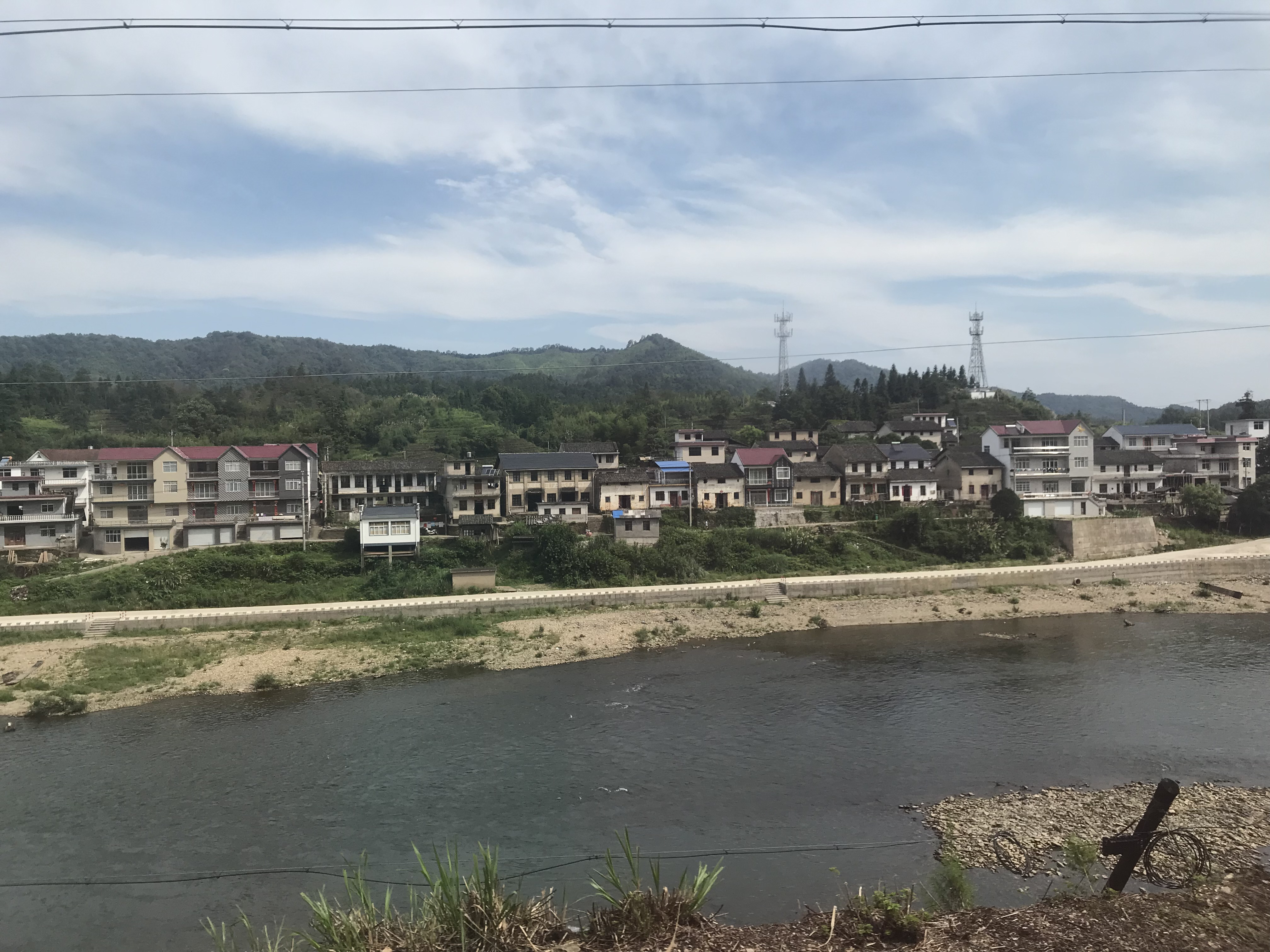 201806 Daohu Village